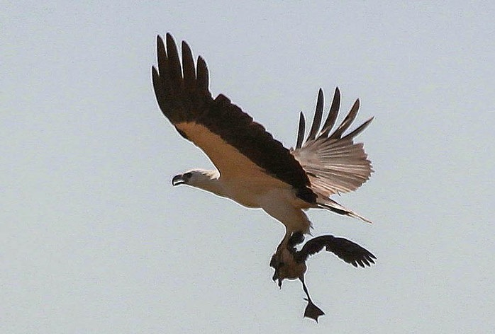 Capture Lesser whistling duck